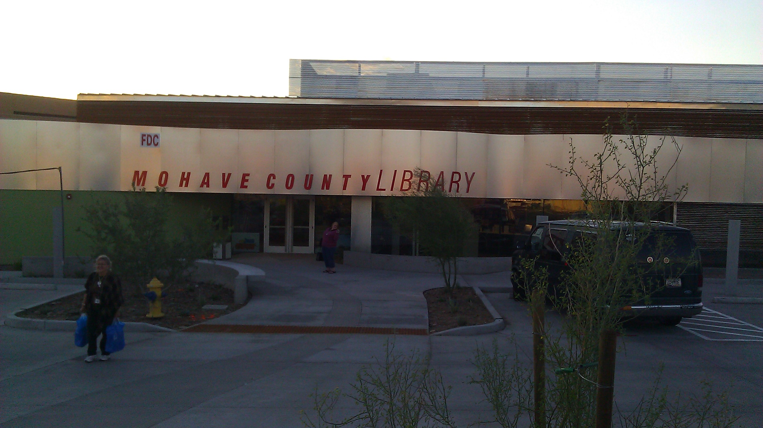 Mohave County Library, Bullhead City Branch